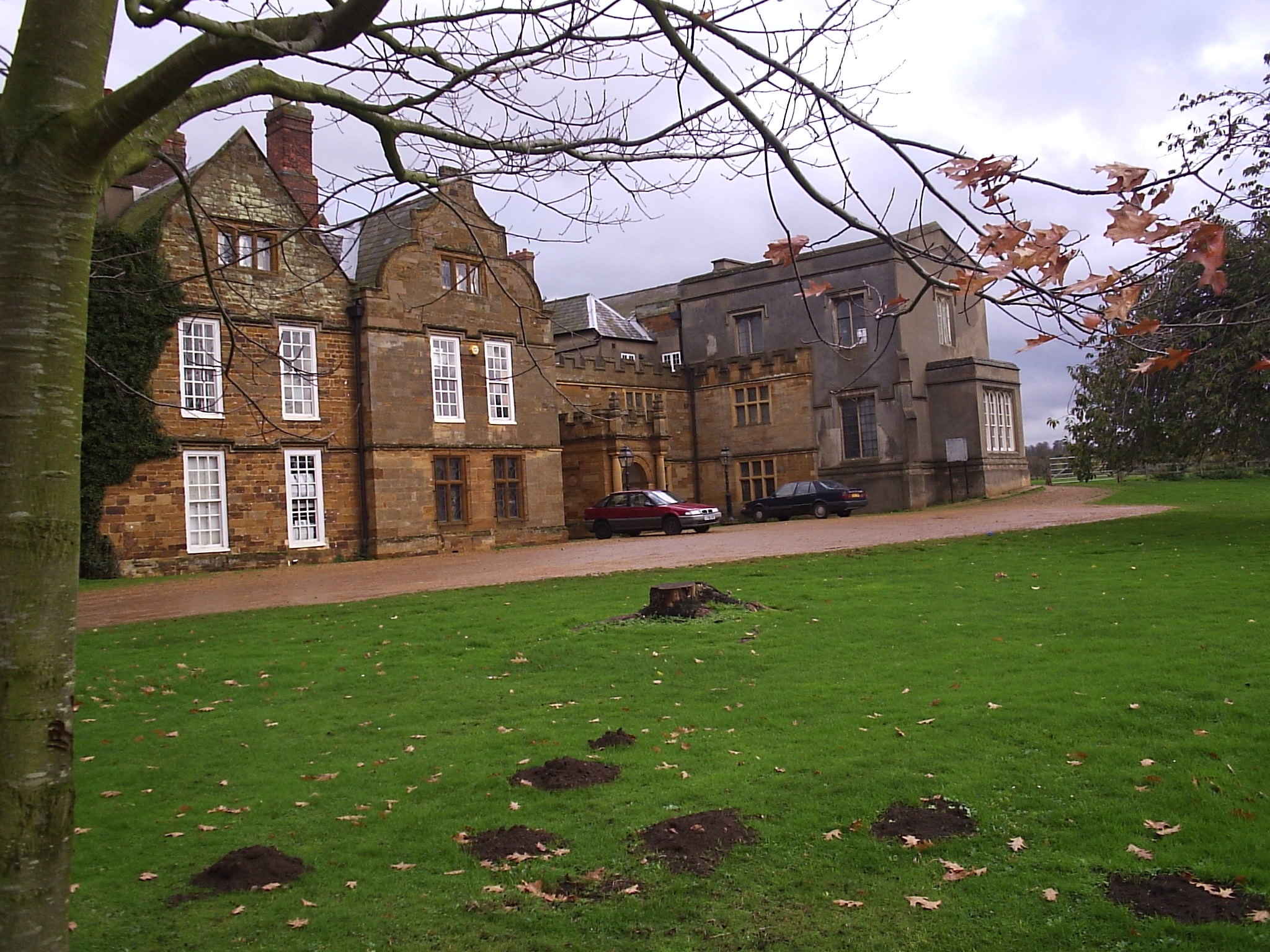 The west front of Delapre Abbey - picture taken by R Neil Marshman 3 November 2005 (c)